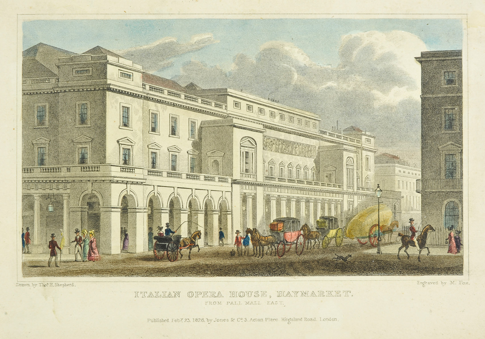 The Italian Opera House, The Haymarket by Thomas Hosmer Shepherd 1827-28.